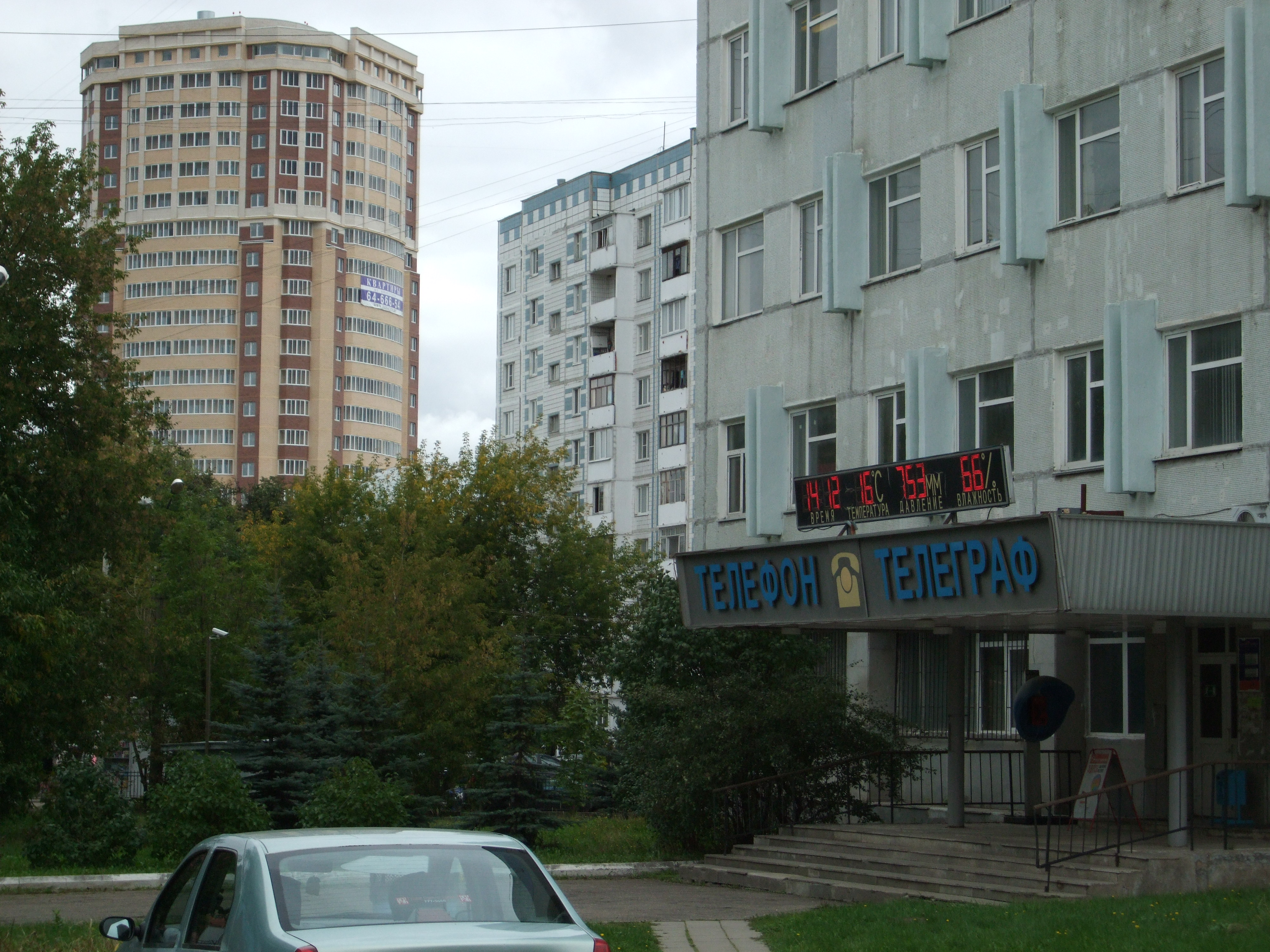 This view of town Solnechnogorsk (Russia) contains institution of telecomunications (to the right) and the most high building of the town.